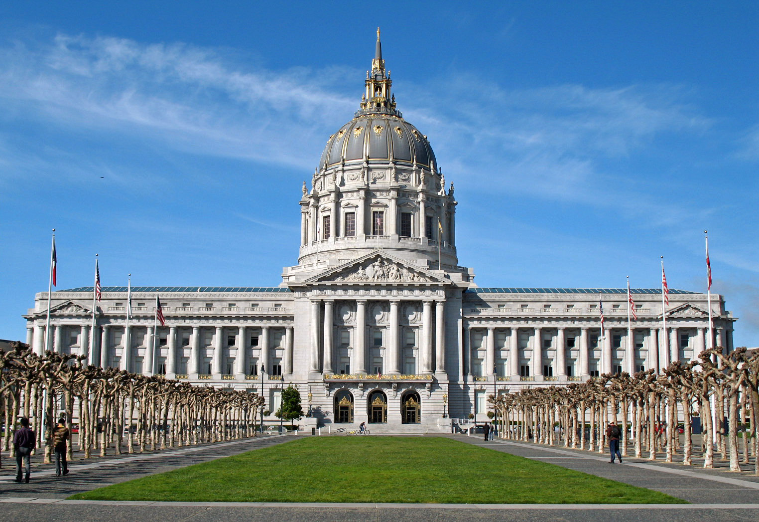 National Register of Historic Places in San Francisco, California. San Francisco City Hall, 1 Goodlett Place, San Francisco, California, USA. Photographed 2008-03-08 by Mike Hofmann from the northwest corner of the San Francisco Main Library. The building is among the sites in the San Francisco Civic Center Historic District.